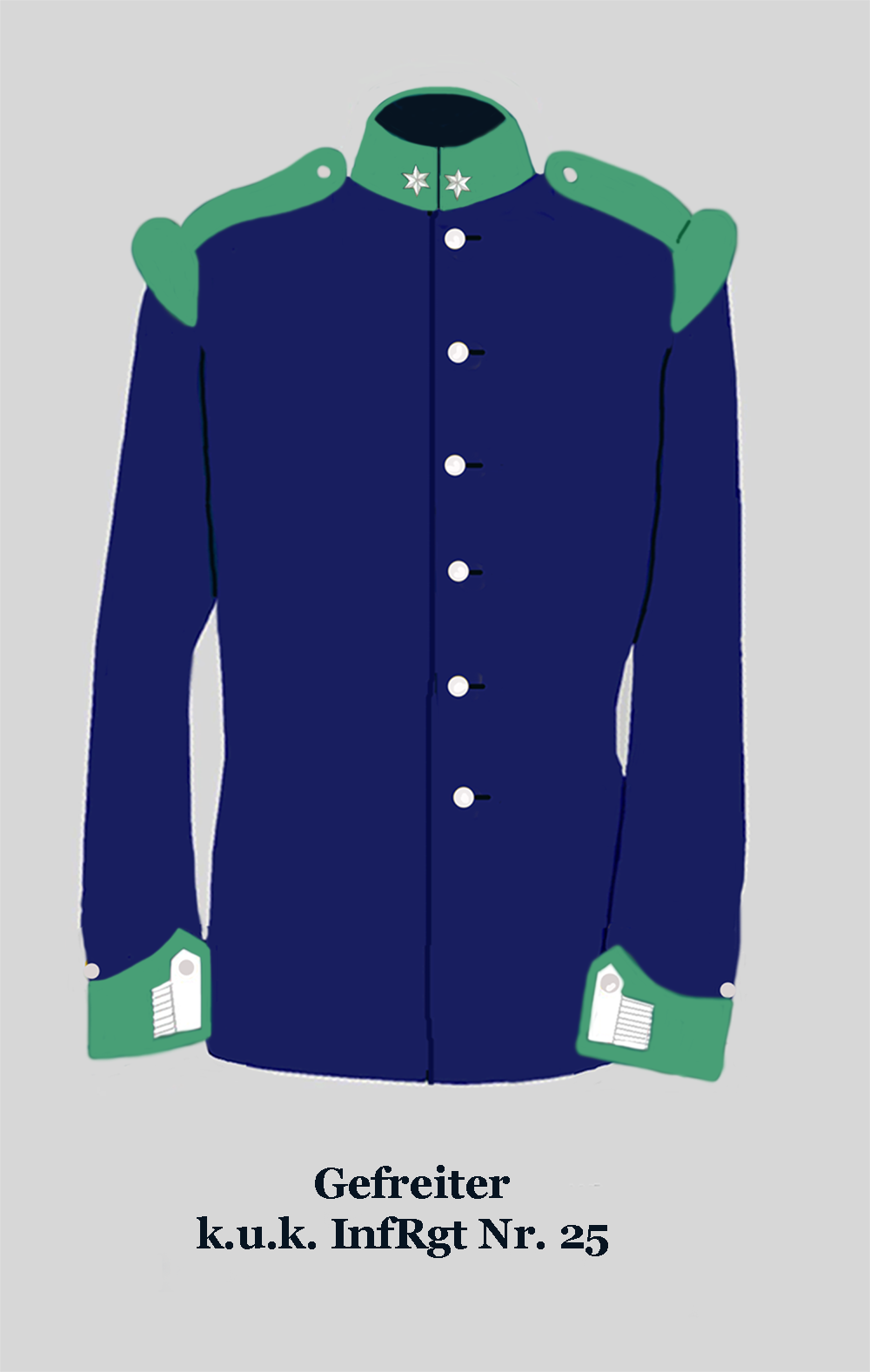 Private 1st class in the k.u.k. hungarian 25th Infantry Regiment (Collar sea-green, buttons white)